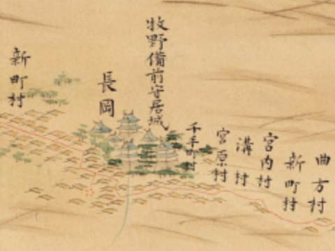 Nagaoka Castle from "Dai Nihon Enkai Yochi Zenzu" No.76 Echigo (Echigo, Tokimizu, Nagaoka, and Katamachi)